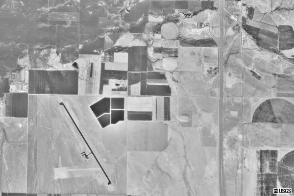 USGS digital orthophoto of Beaver Municipal Airport in Beaver, Utah, United States